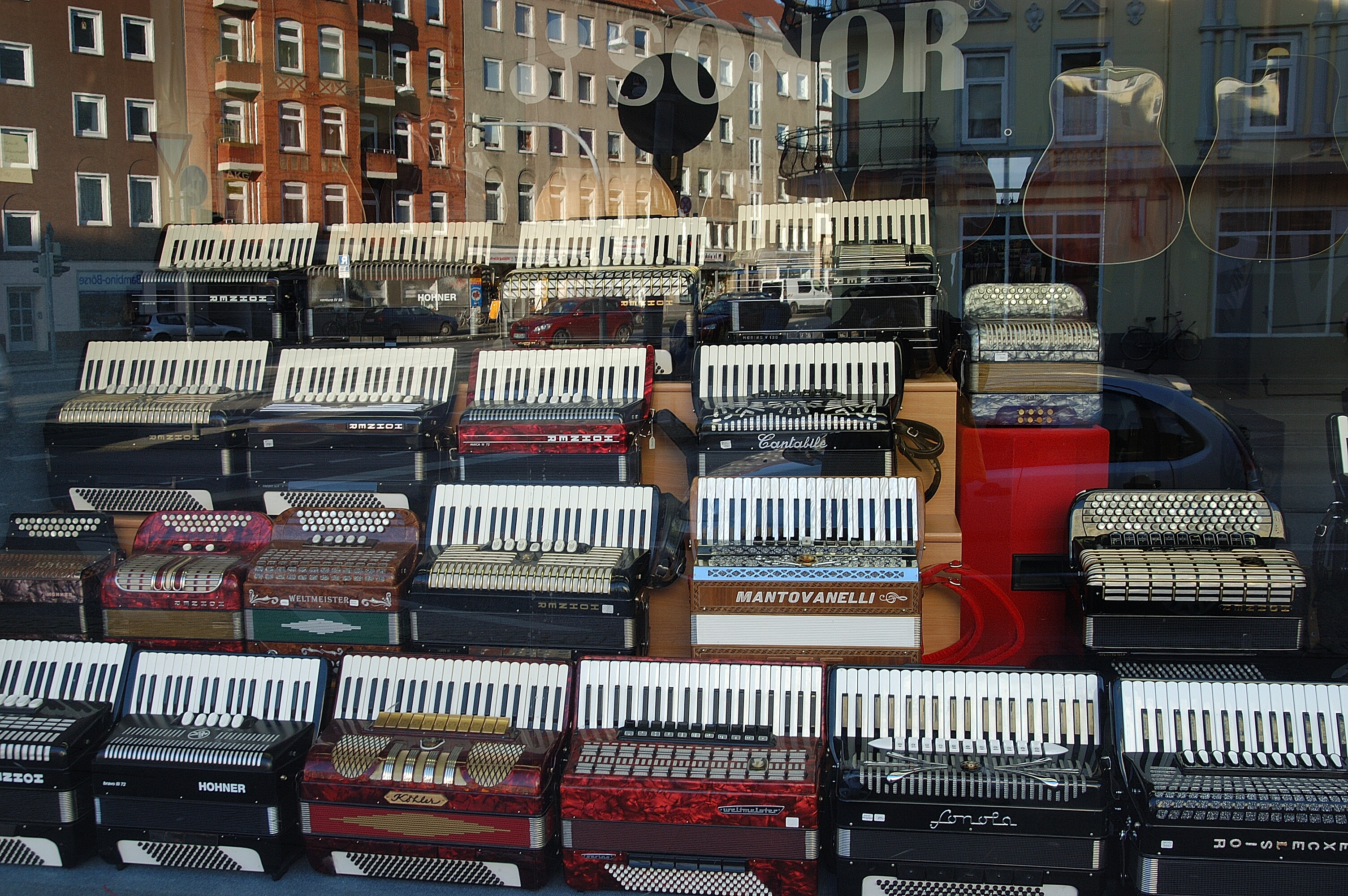 Showcase with accordions. Location: Musikhaus Keller, Gutenbergstraße, Kiel, Germany.